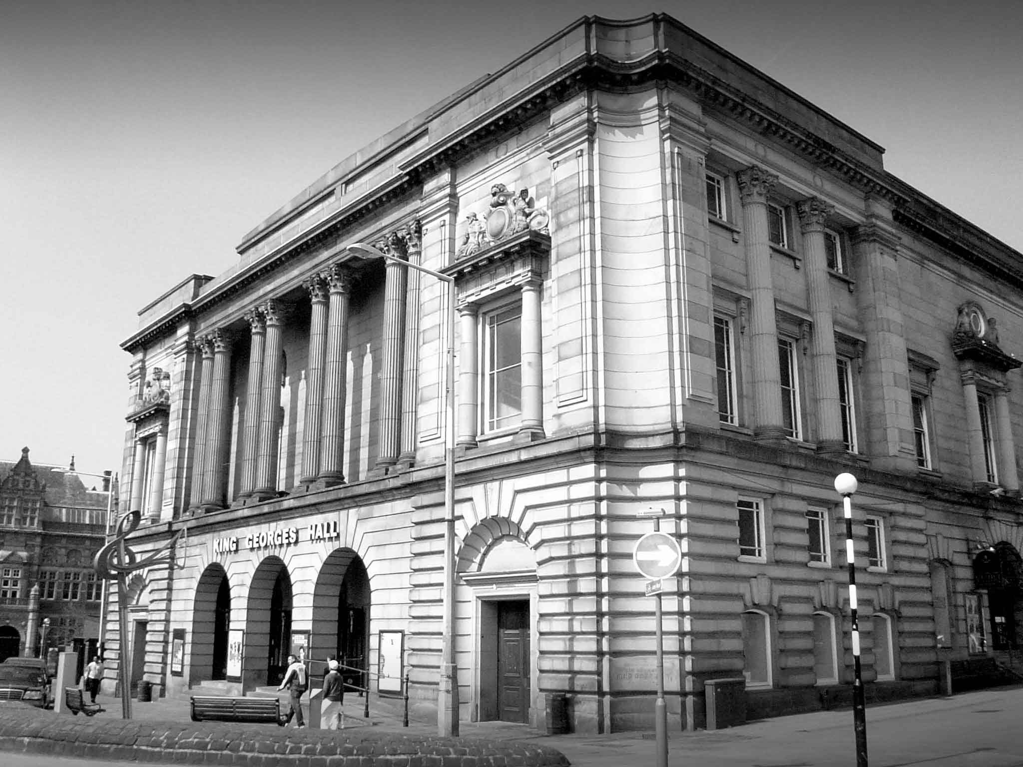 Blackburn's famous King George's Hall in 2005. Author: Paul Sparkes Location: Blackburn 2005 Source: Personal photograph taken by Author